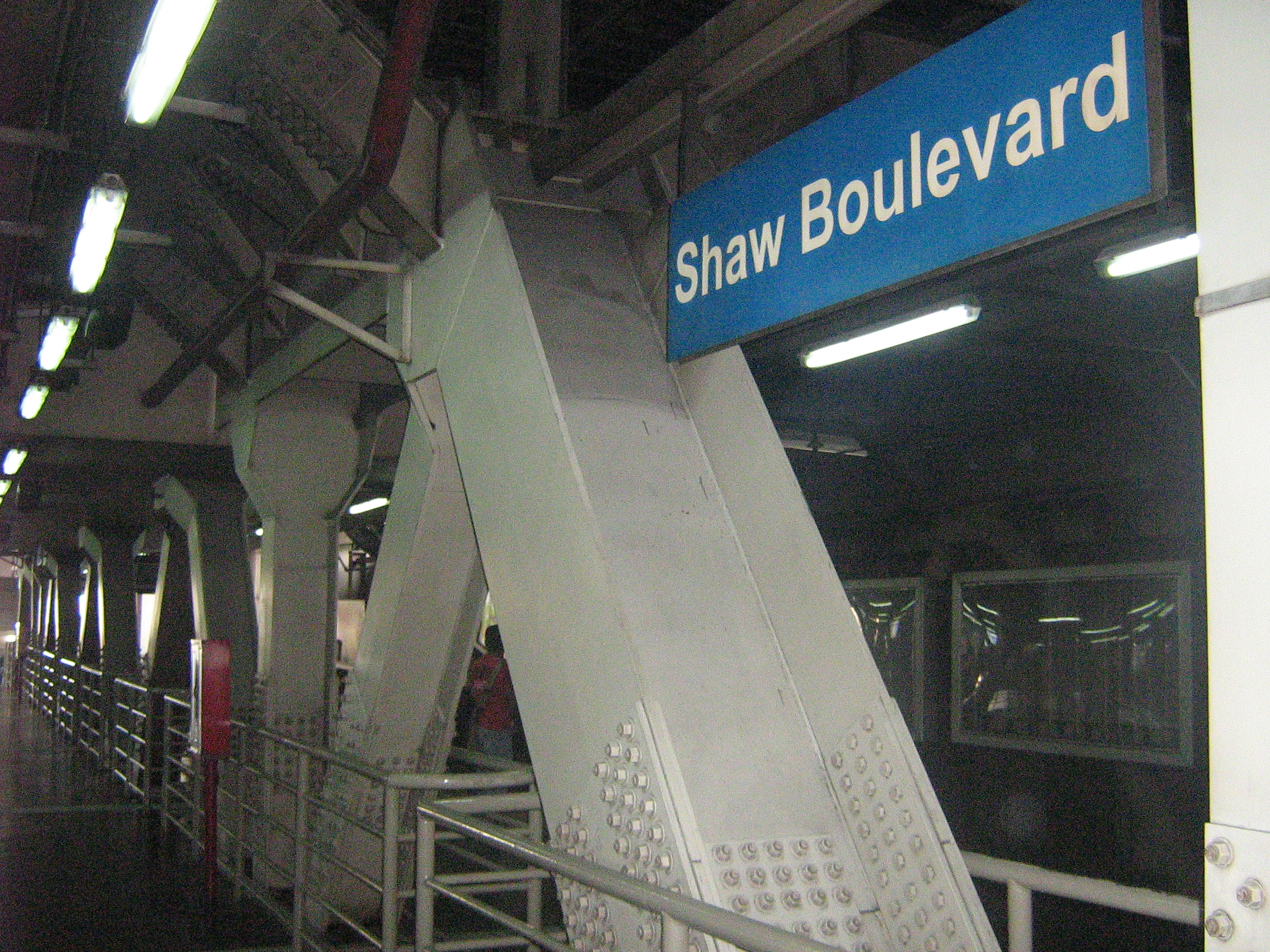 MRT-3 Shaw Boulevard Station.